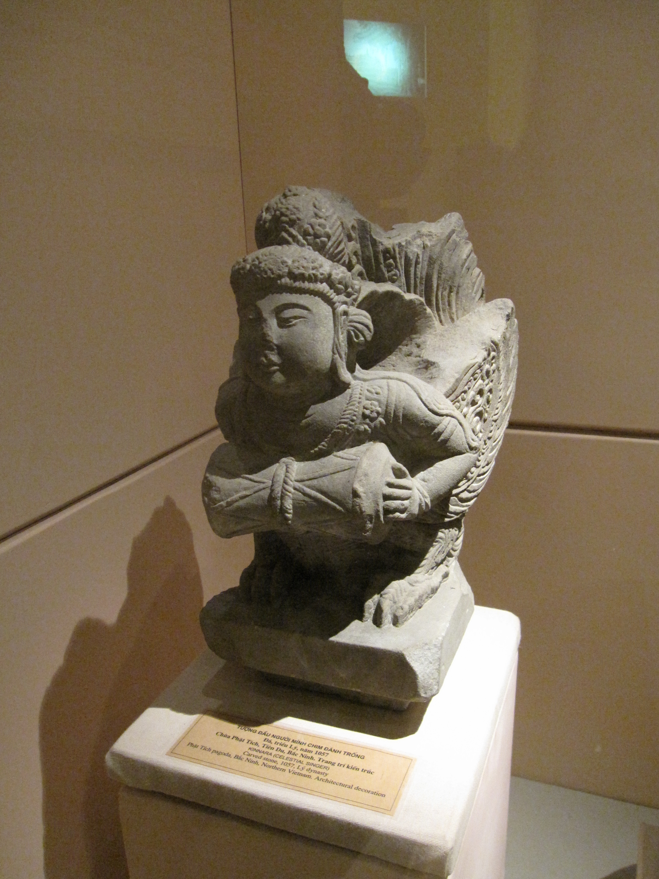 Kinnara. Carved stone, Lý dynasty, circa 1057. Phật Tích pagoda, Bắc Ninh, northern Vietnam. Architectural decoration. National Museum of Vietnamese History, Hanoi.